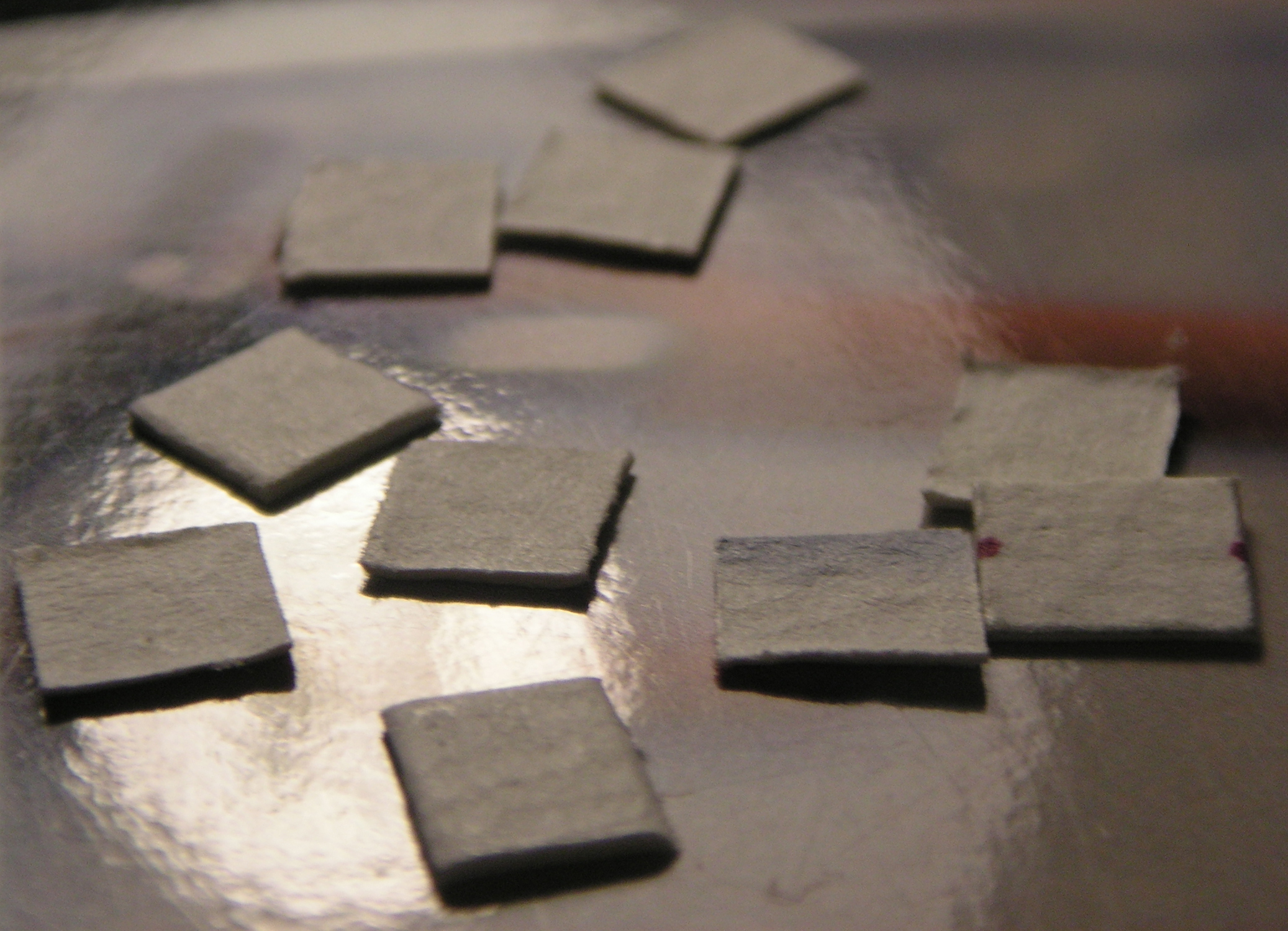 10 hits of White On White (WOW) LSD.